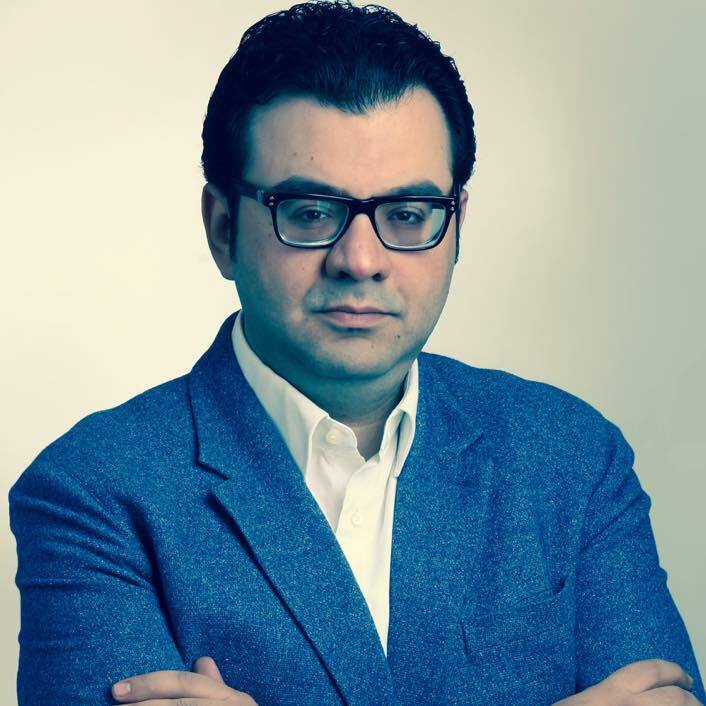 Louai Almokdad